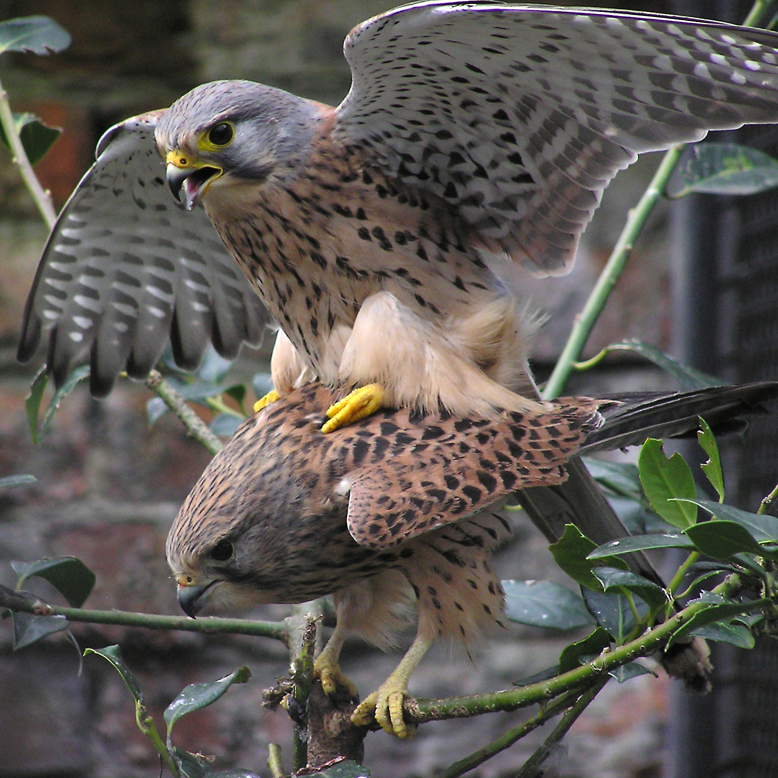 Common Kestrels mating at Artis Zoo, Netherlands.